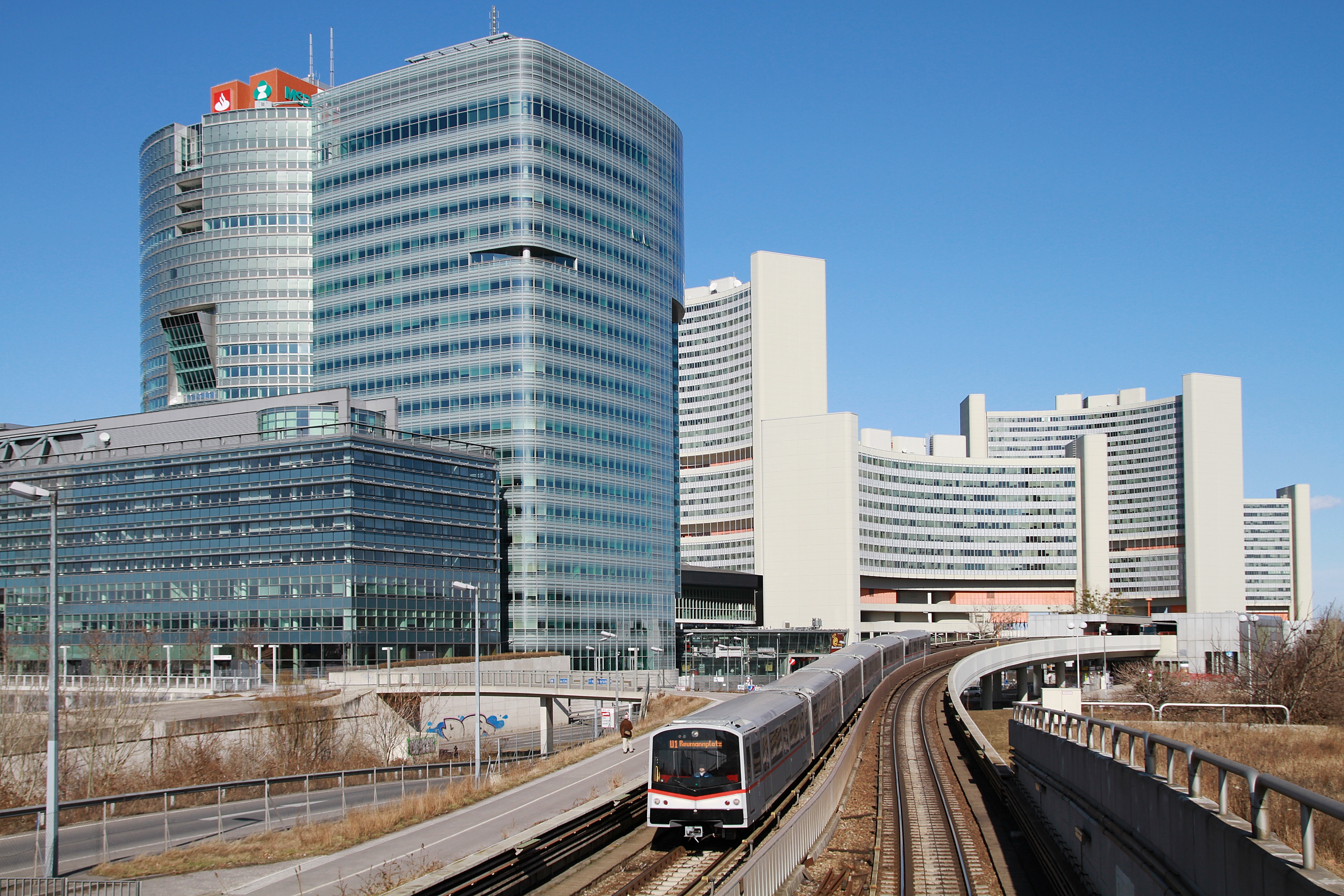 Austria, Vienna, Vienna International Centre